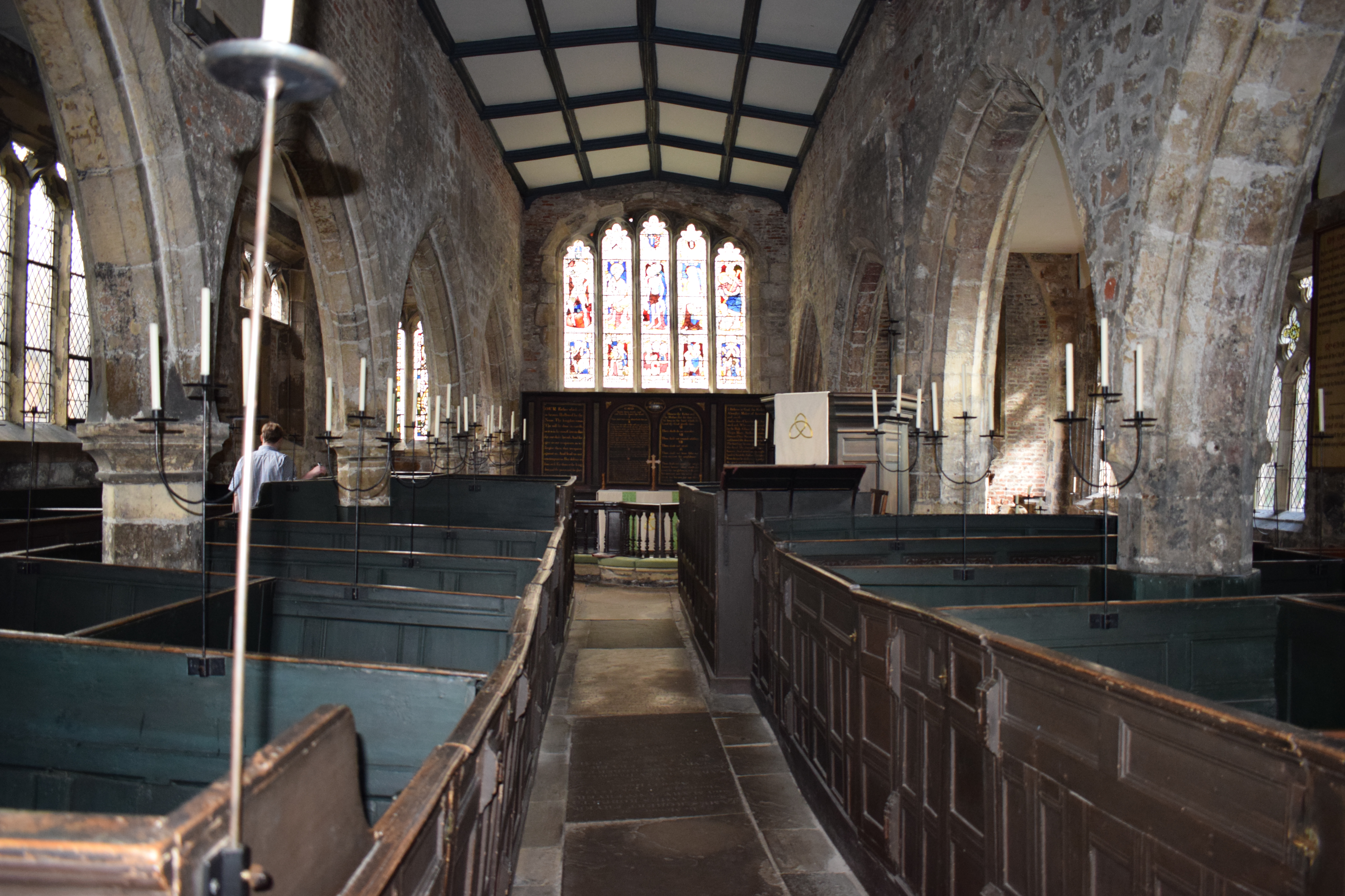 Box Pews in Holy Trinity Church, Goodramgate, York, England